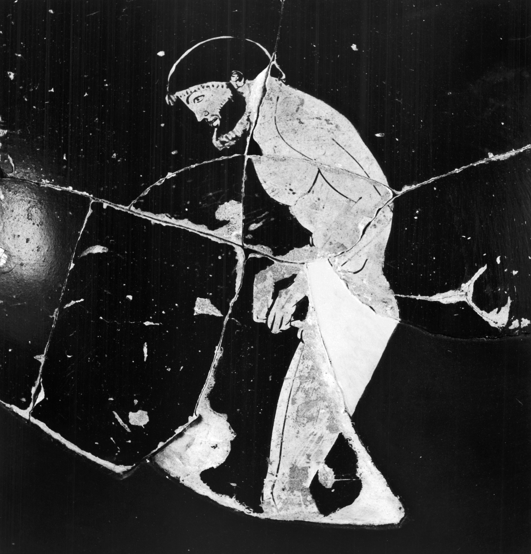 This red-figure psykter depicts an athlete and a servant boy on the front. On the left remains the left hand and lower arm of a servant holding a bag (possibly leather) by a strap. On the right a bearded male athlete in profile to the left hunches over infibulating himself; his attention is focused on the bag held by the boy. On the back are a youth and a boy (possibly courting) a dog. On the left a mantled youth with fillet leans forward on a staff. He holds both arms out and far apart, gesturing to the boy on the right. A dog (Laconian hound) sits on the ground to the right before the youth. The boy, who wears a mantle and fillet, stands attentively in profile to the left. The scene on the front is unusual. The bag held by the youth is probably of leather and may be either a small punching bag ("korukos") or simply a vessel for liquid. Leather bags were used for holding oil. The scene on the back is similar to others by the Syriskos Painter. The pose of the youth's hand is that often used by men about to or in the process of fondling their lover's genitals. This suggests a possible identification as a courting scene. The psykter comes from the Tomb of the Leopards in Tarquinia which was excavated by the Marzi brothers in 1875.